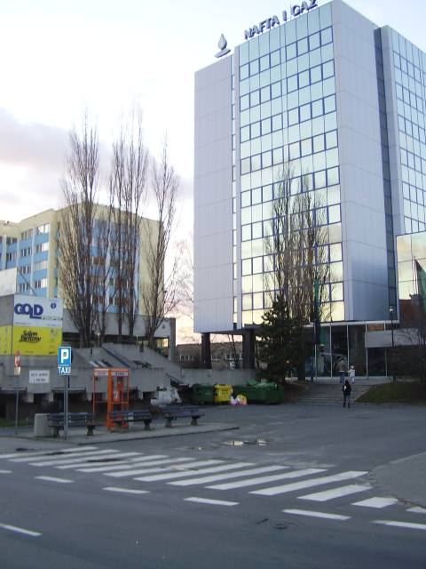 Zielona Góra, Poland. Buildings in the town's office district between Chopina St. and Westerplatte St.